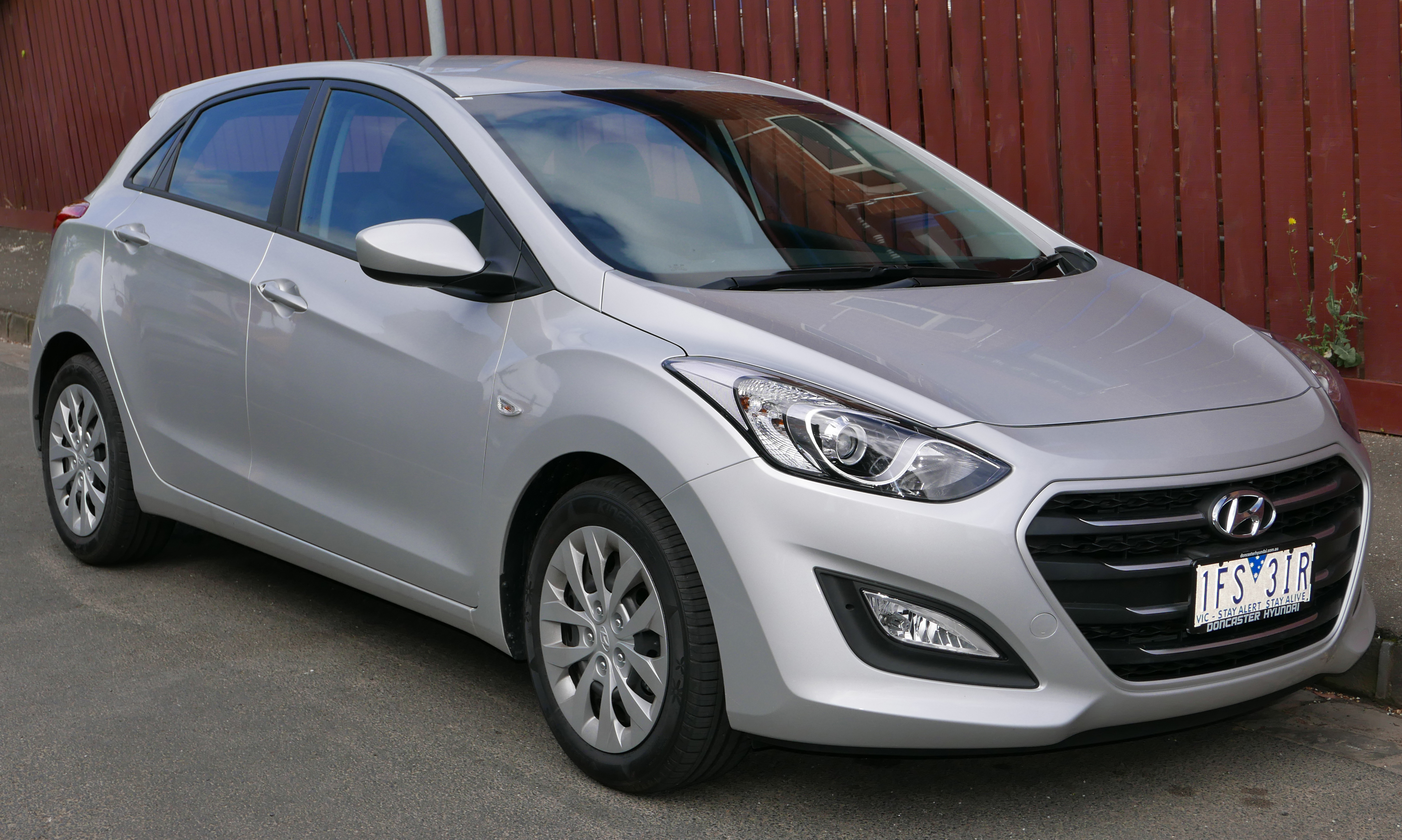 2015 Hyundai i30 (GD3 Series II MY16) Active 5-door hatchback. Photographed in Fitzroy North, Victoria, Australia. Vehicle registration enquiry resultsJurisdictionVictoriaRegistration1FS3IRChassis codeKMHD251EMGU298307Engine codeG4NBFU607224Compliance date2015-10Year of manufacture2015